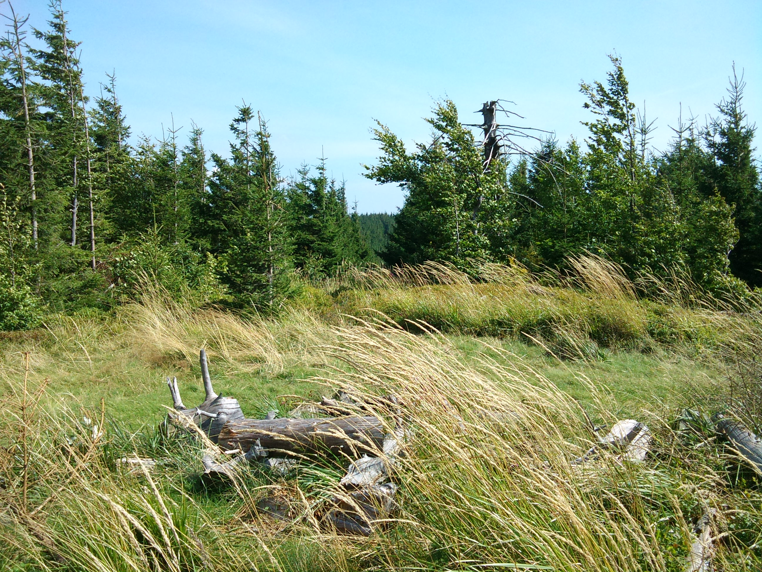 Summit of Studený in Rychleby Mountains